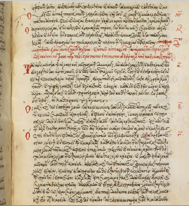 John of Kitros, Responsionum ad Constantinum Cabasilam excerpta. Manuscript. Nov 1600. British Library